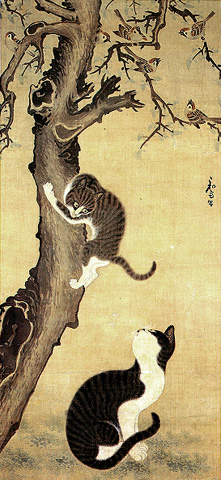 The picture titled "Myojakdo (cats and sparrows)" is painted by Byeon Sangbyeok.